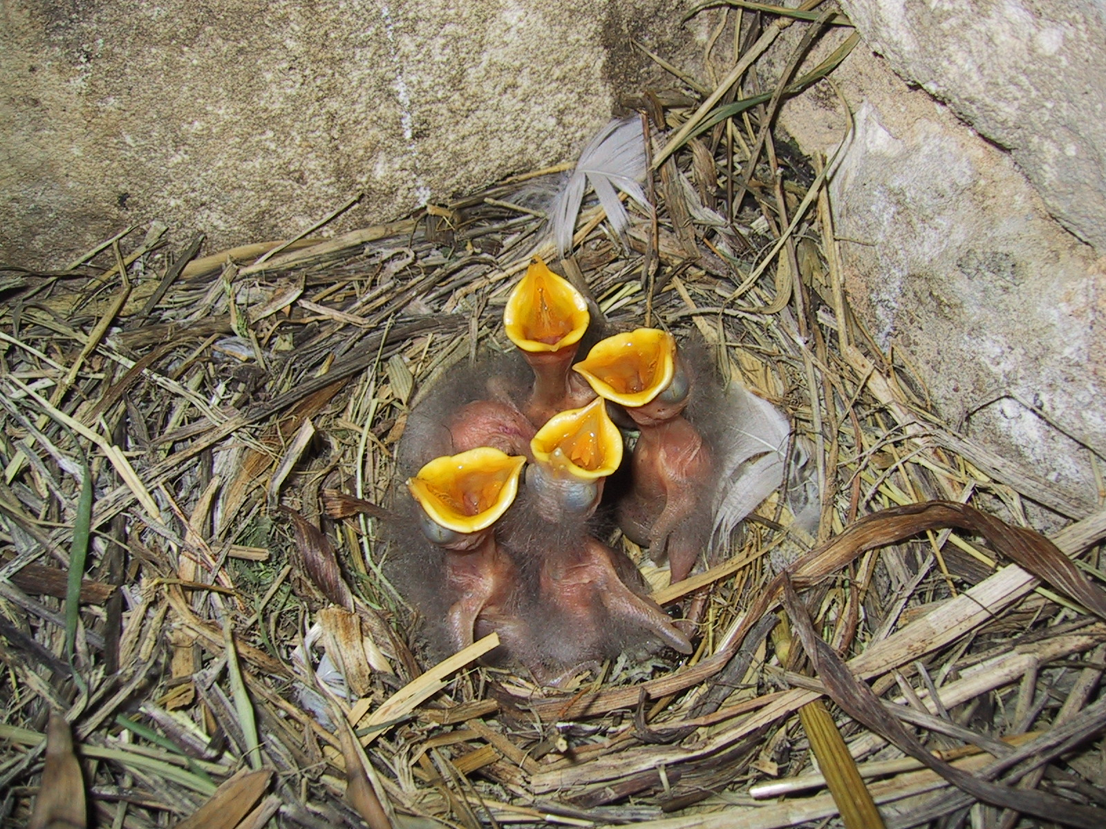 Merle noir ("Turdus merula") - nest in a barn with 4 chicks - April 2005, Charente-Maritime (France)